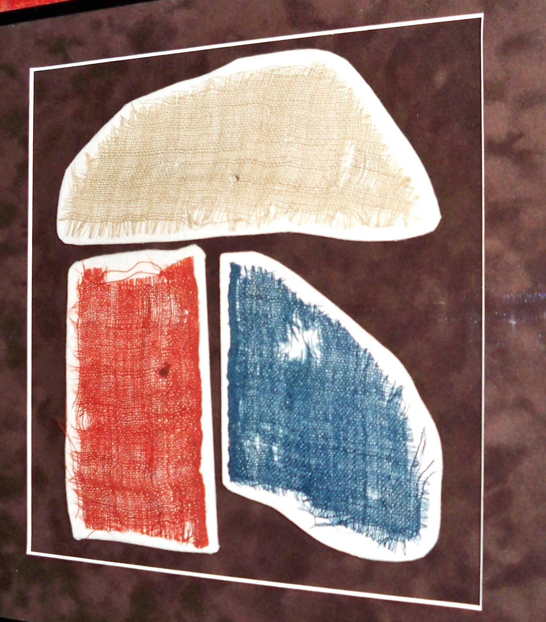 Fragments of the Star Spangled Banner in the Price of Freedom exhibit at the Smithsonian National Museum of American History.